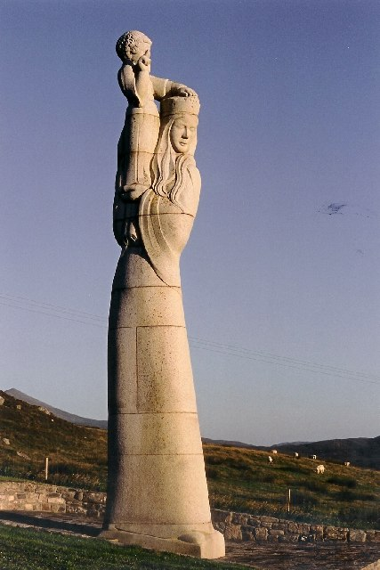 Our Lady of the Isles. Lorimers most famous sculpture.Paid for by the islanders.